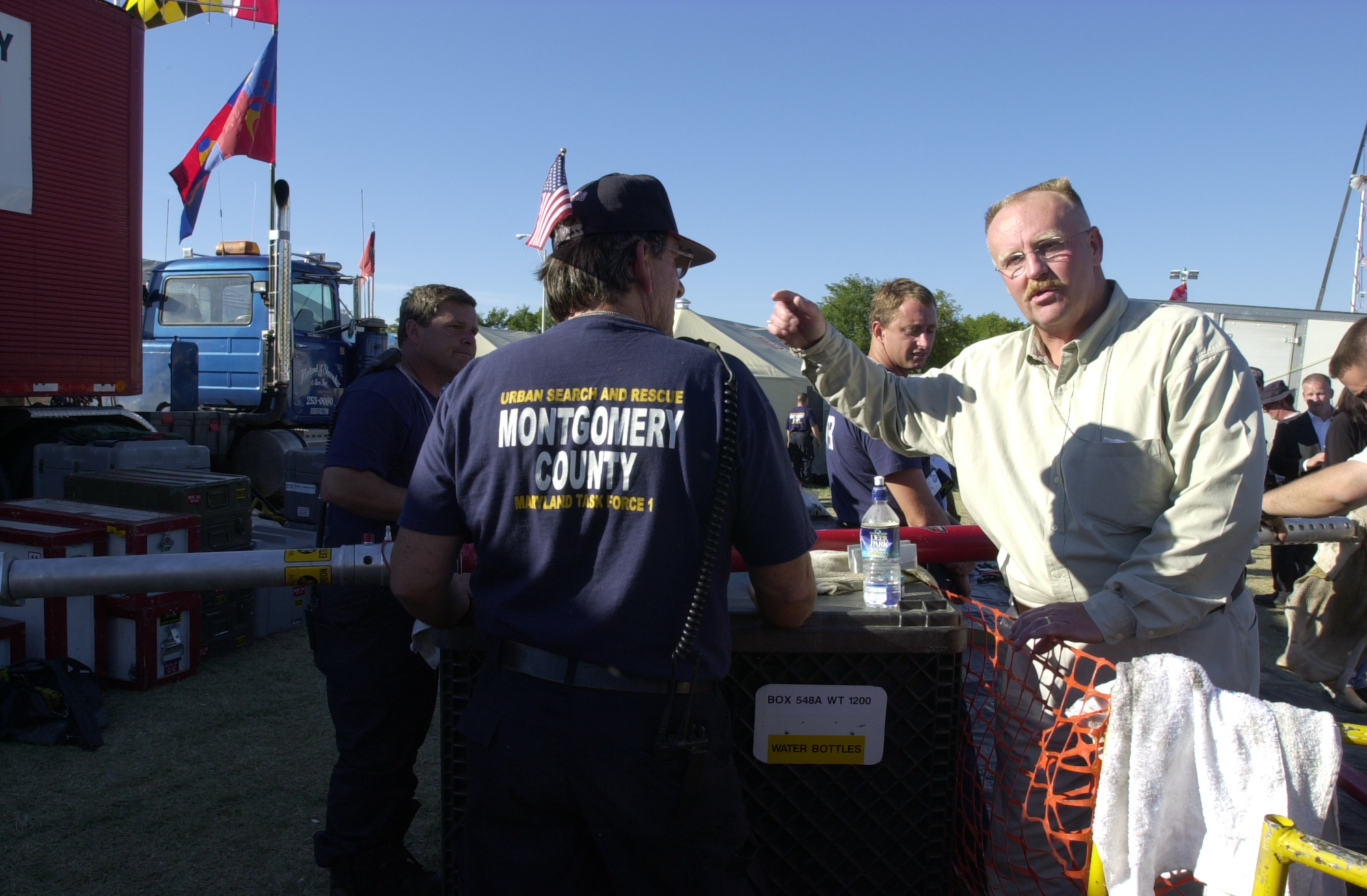 Arlington, VA, September 15, 2001 -- FEMA Director Joe M. Allbaugh meets with Urban Search and Rescue members from the Maryland Task Force-1 at the Pentagon crash site. Photo by Jocelyn Augustino/ FEMA News Photo